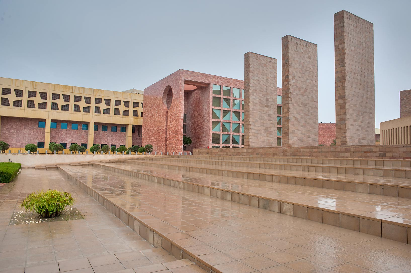 A view of Carnegie Mellon University's Qatar campus in Education City, Al Rayyan.